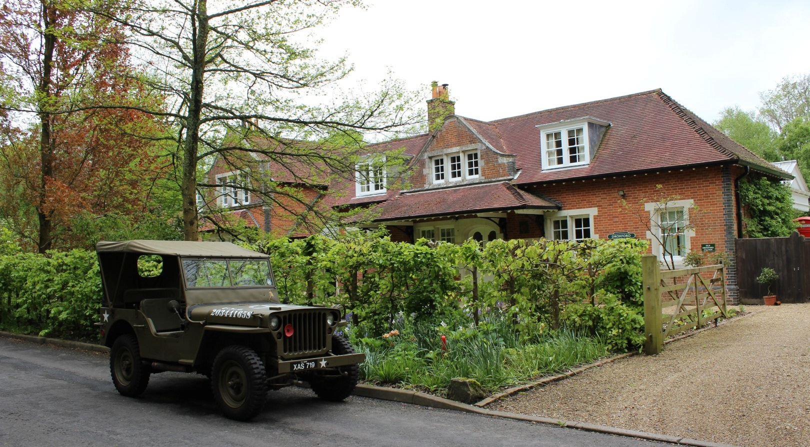 My jeep on a run outside the station. Droxford railway station, Droxford, Hampshire.